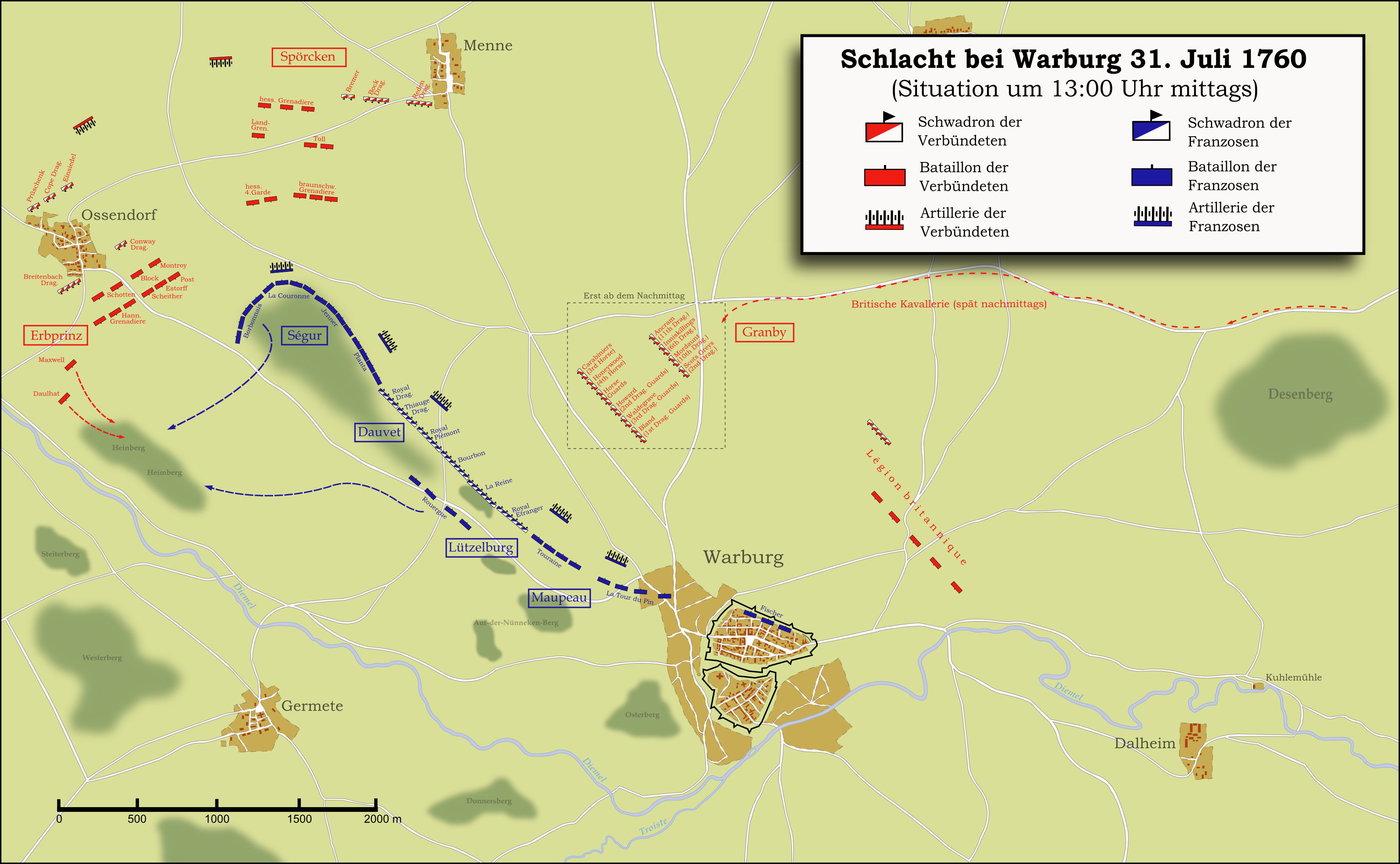 Map of the Battle of Minden 1759. The work is based on a seperate map in Großer Generalstab / Kriegsgeschichtliche Abteilung (Hrsg.): Der Siebenjährige Krieg 1756–1763, Bd.12: Landeshut und Liegnitz, Verlag Ernst Siegfried Mittler & Sohn, Berlin 1914 (= Die Kriege Friedrichs des Großen, Theil 3), which has been extended by several additional informations from literature.